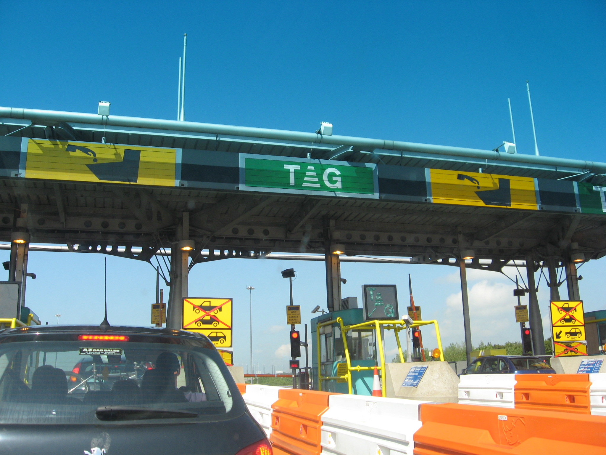 The Severn e-TAG Automatic Vehicle Identification System on the Second Severn Crossing, Wales